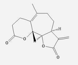 Psilostachyin B, isolate of Ambrosia psilostachya.